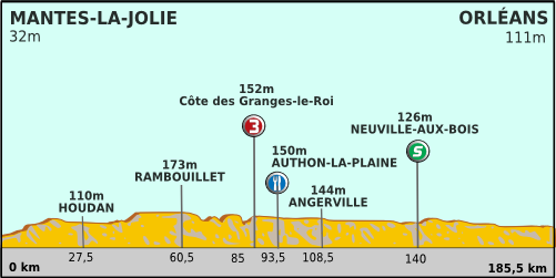 Paris-Nice 2012 Profile stage 2